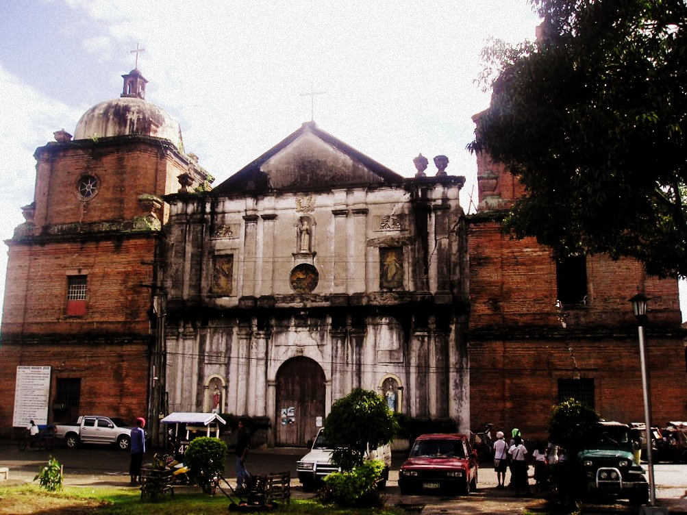 Cabatuan, Iloilo, Philippines. The church is the largest and said to be the best ever built by the Spanish in the island of Panay. It was considered a “model church” and work on its construction started in 1833. Olympus Camedia (FPOP Chapter Empowerment Committee Workshop, September 2005).